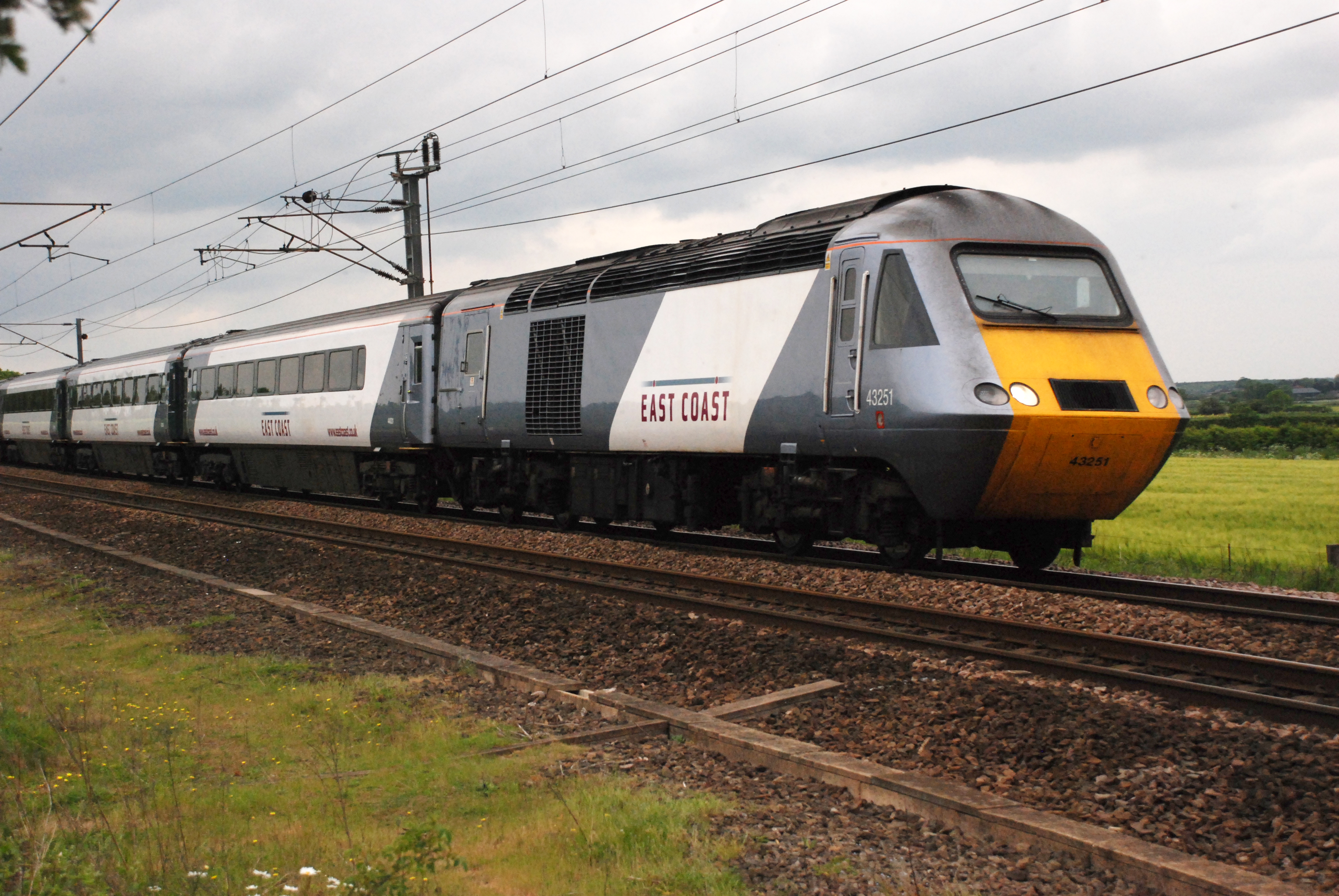 91115 speeds north near Retford.